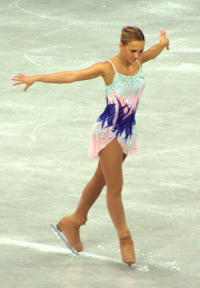 Annette Dytrt at the qualification of the Wold cahmpionships in Dortmund 2004